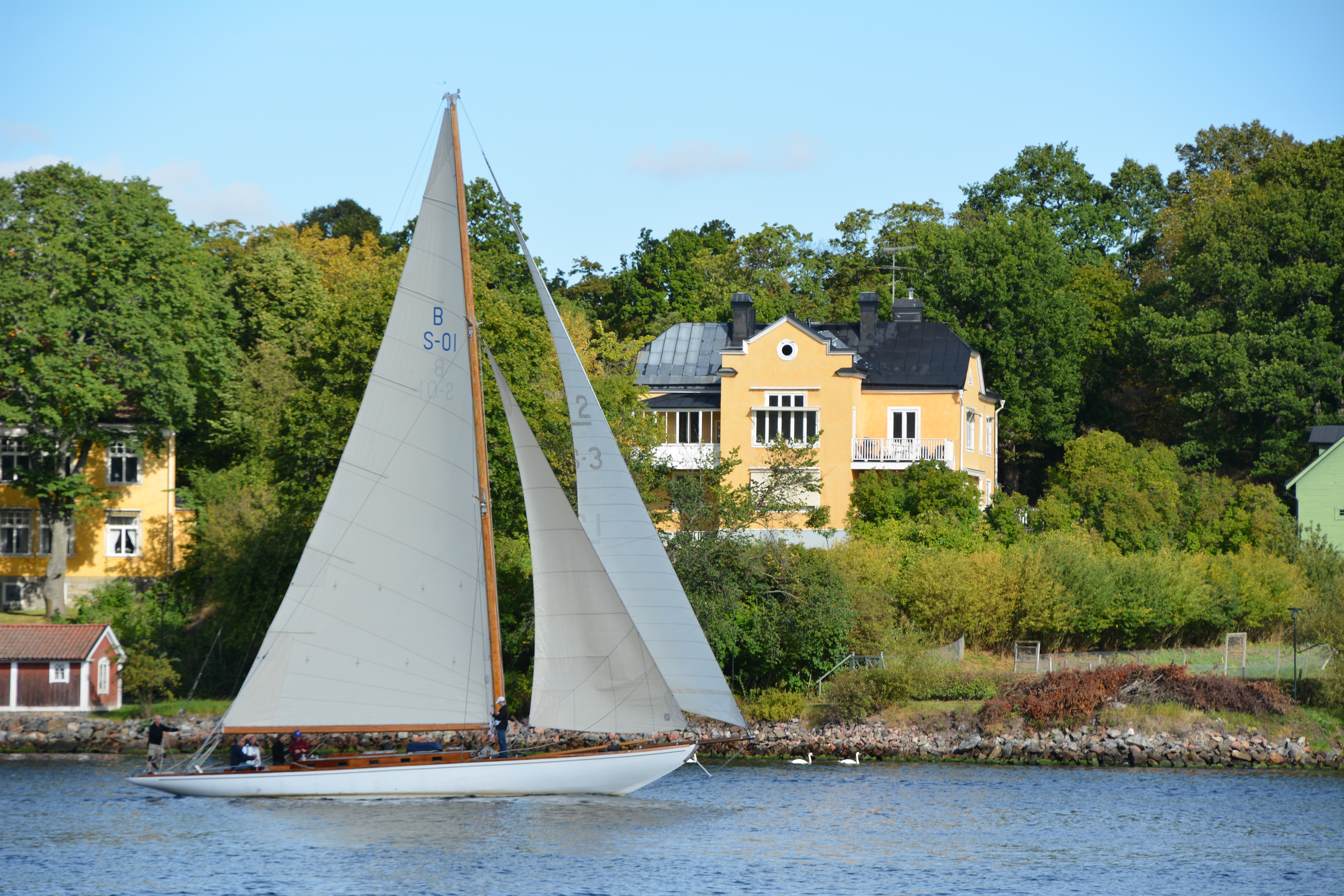 Beatrice Aurore utanför Södra Djurgården i Stockholm. Beatrice Aurore är en skärgårdskryssare SK 150, byggd som EBE 1920 av August Plym på Neglingevarvet i Saltsjöbaden, har tidigare också haft namnet Ebella